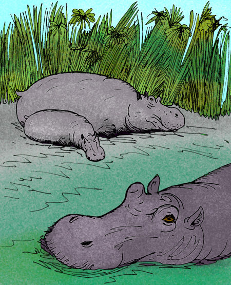 My reconstruction of the prehistoric hippopotamus, Hippopotamus gorgops. (C) Stanton F. Fink